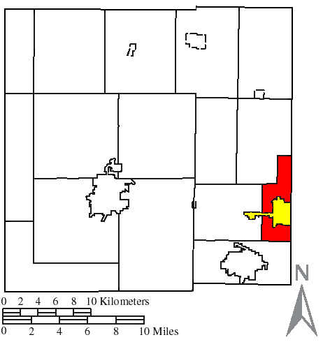 Made by the US Census and modified by myself